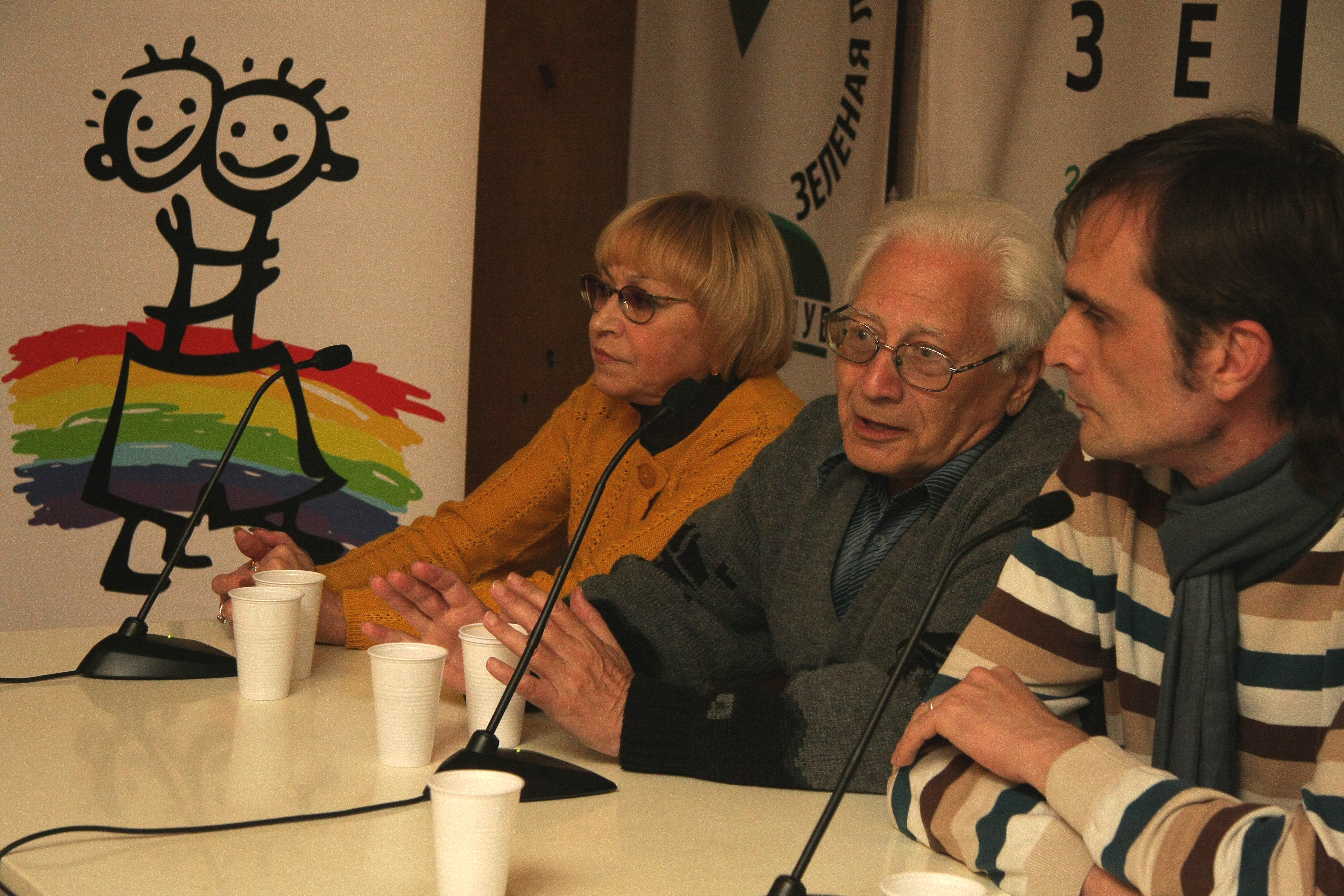 Nina Tagankina, Igor Kon, Igor Kochetkov. International Gay and Lesbian Film Festival «Side by Side»